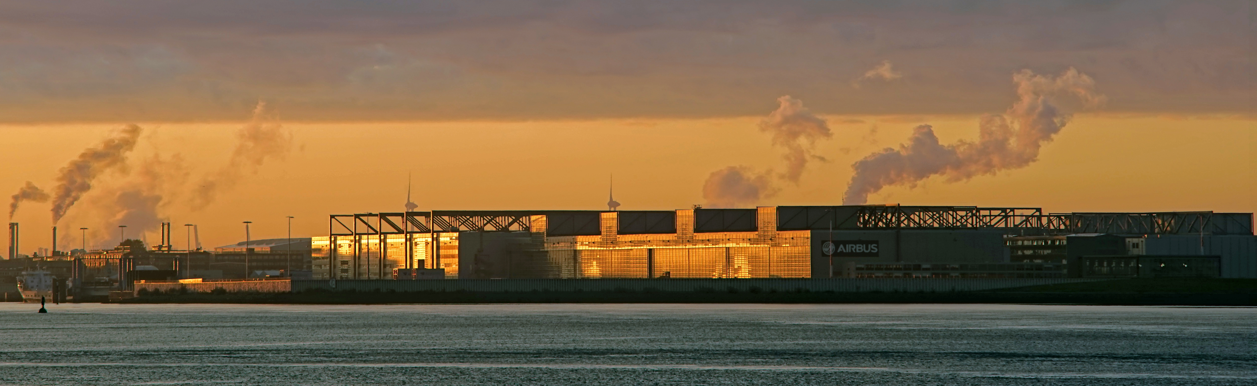 Final assembly of the A320 family (A318, A319, A320 and A321) takes place at the Airbus plant in Hamburg-Finkenwerder.